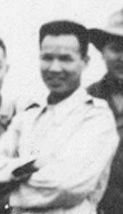 Phạm Văn Đồng (1919 - 2008) was a South Vietnamese general from Son Tay. As military governor of Saigon, he was part of the resistance against the North Vietnamese when Saigon fell on April 30, 1975. The picture was taken in 1953 in North Vietnam when he was a Lieutenant Colonel, wearing a khaki M43 jacket.